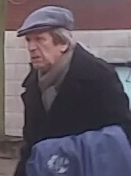 Albert Millaire photographed in Montréal , Quebec, Canada outside the Outremont Theatre. This is a photo of him I took a year before the subject became deceased.